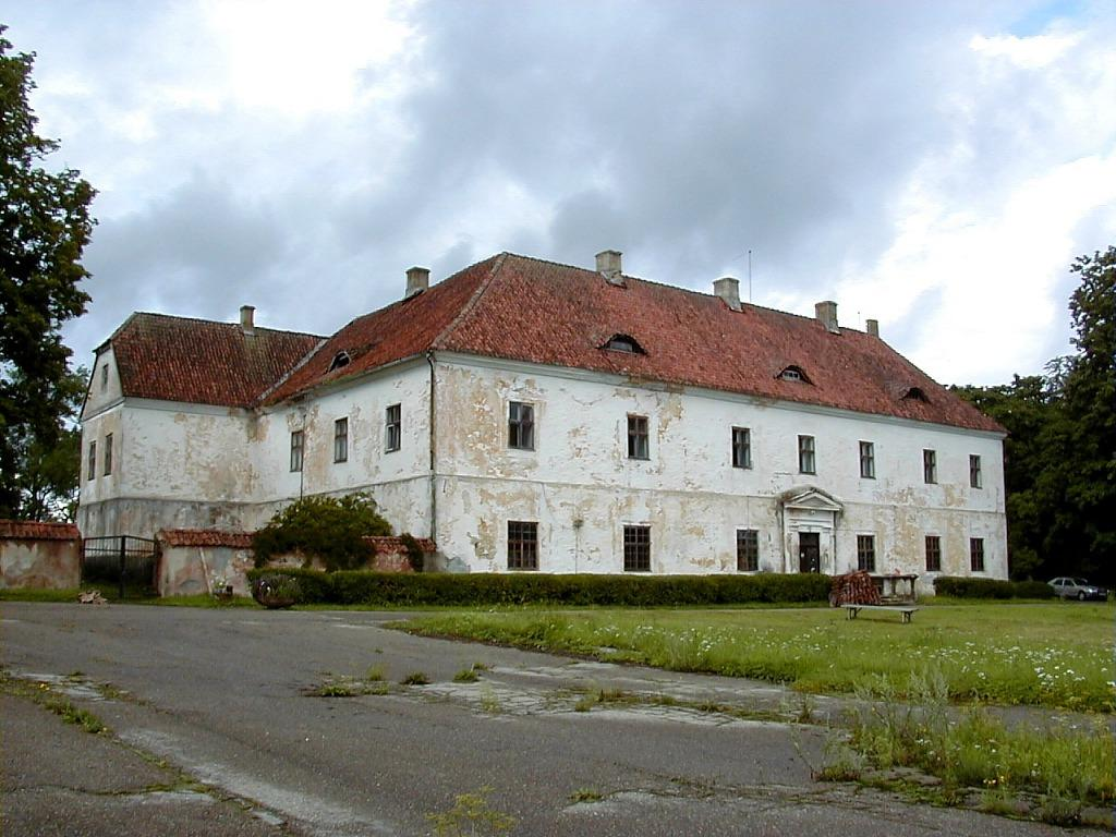 Nurmuiža (Nurmhusen) Castle (Latvia)